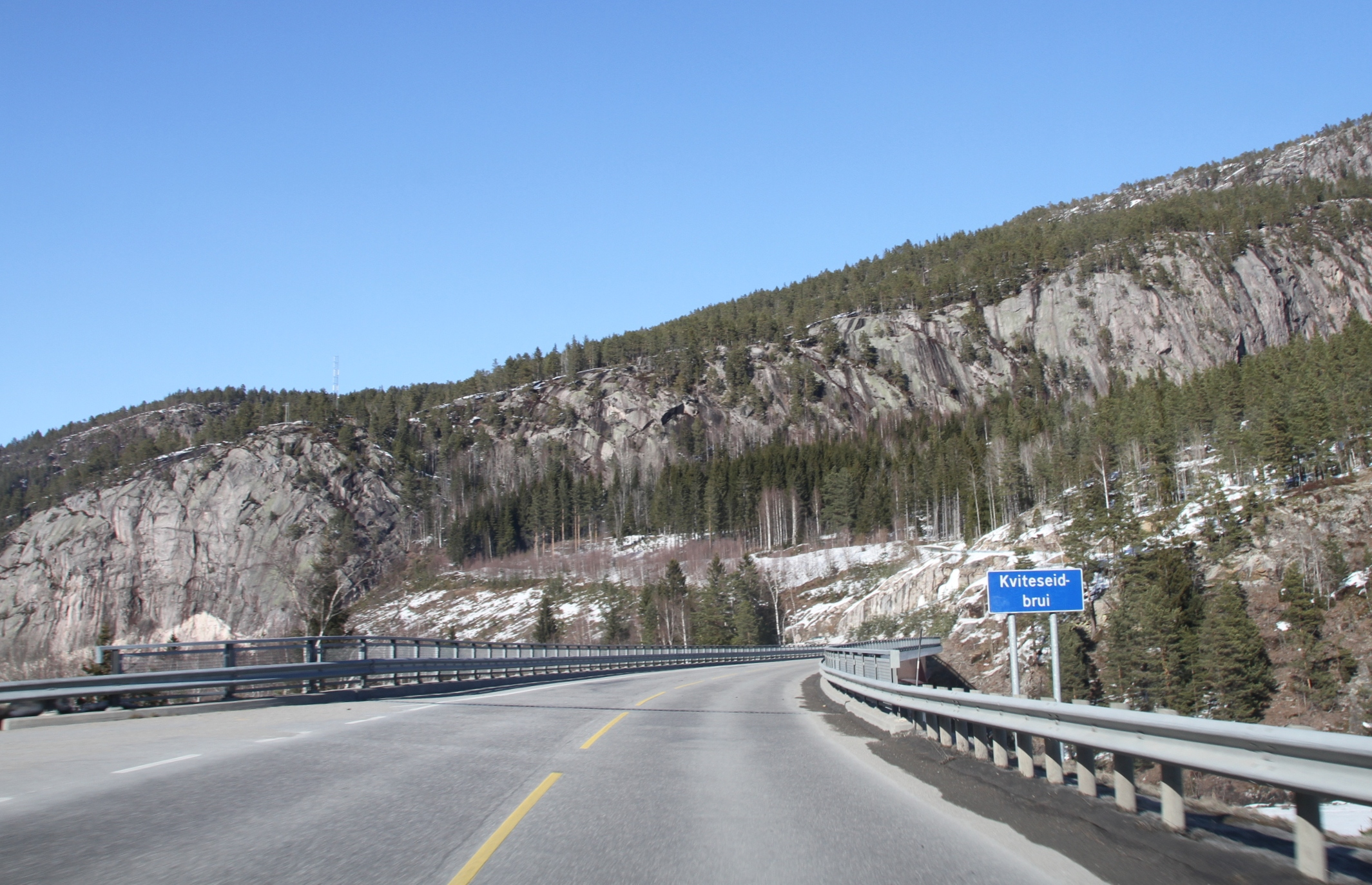 Image from along the hifhway 41 through Kviteseid municipality, along the west shore of the Kviteseidvatnet Lake - Telemark county, Norway.